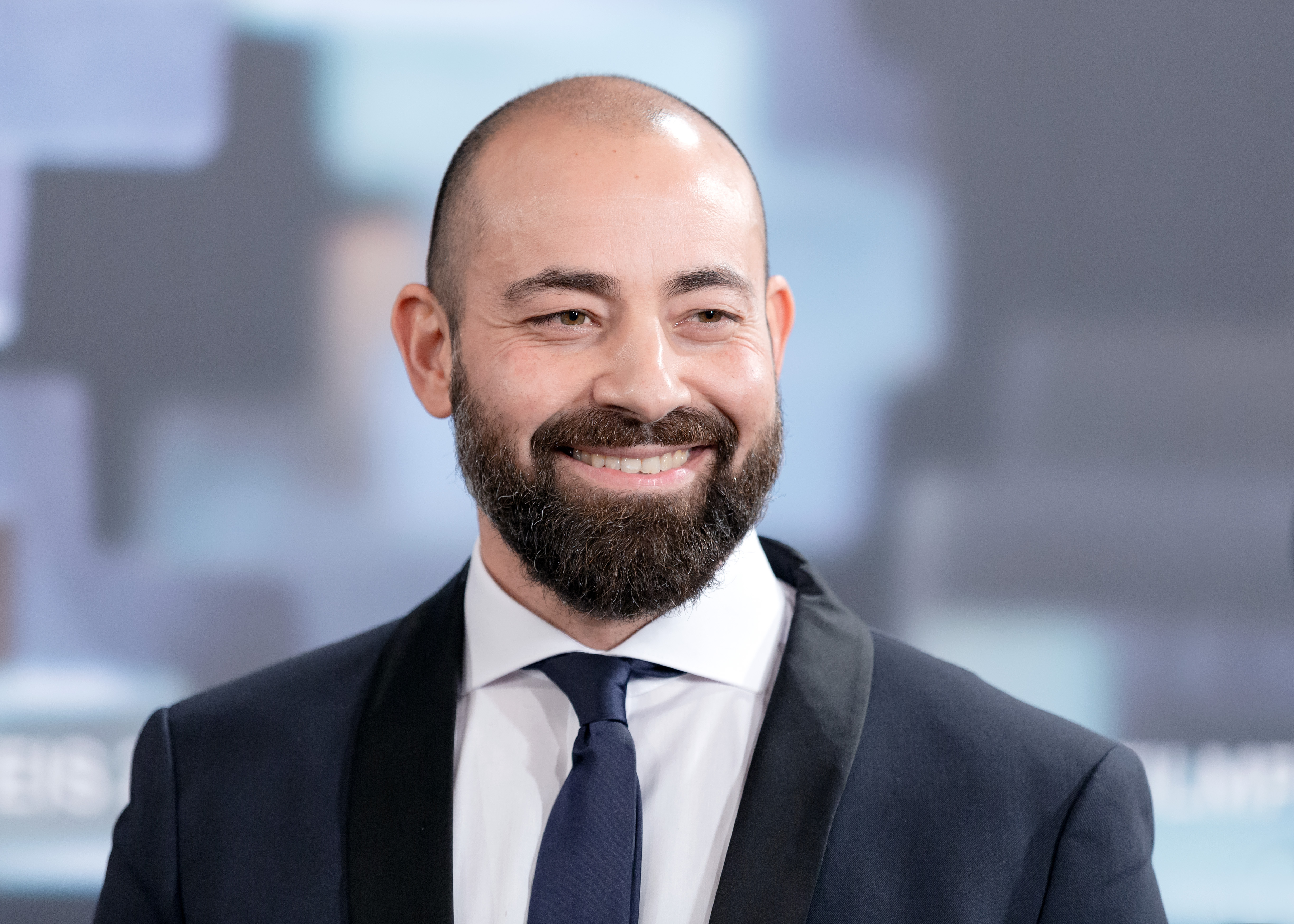 Anton Noori ("Cops"), photo call at the Austrian Film Awards 2019 (Rathaus, Vienna,Austria).